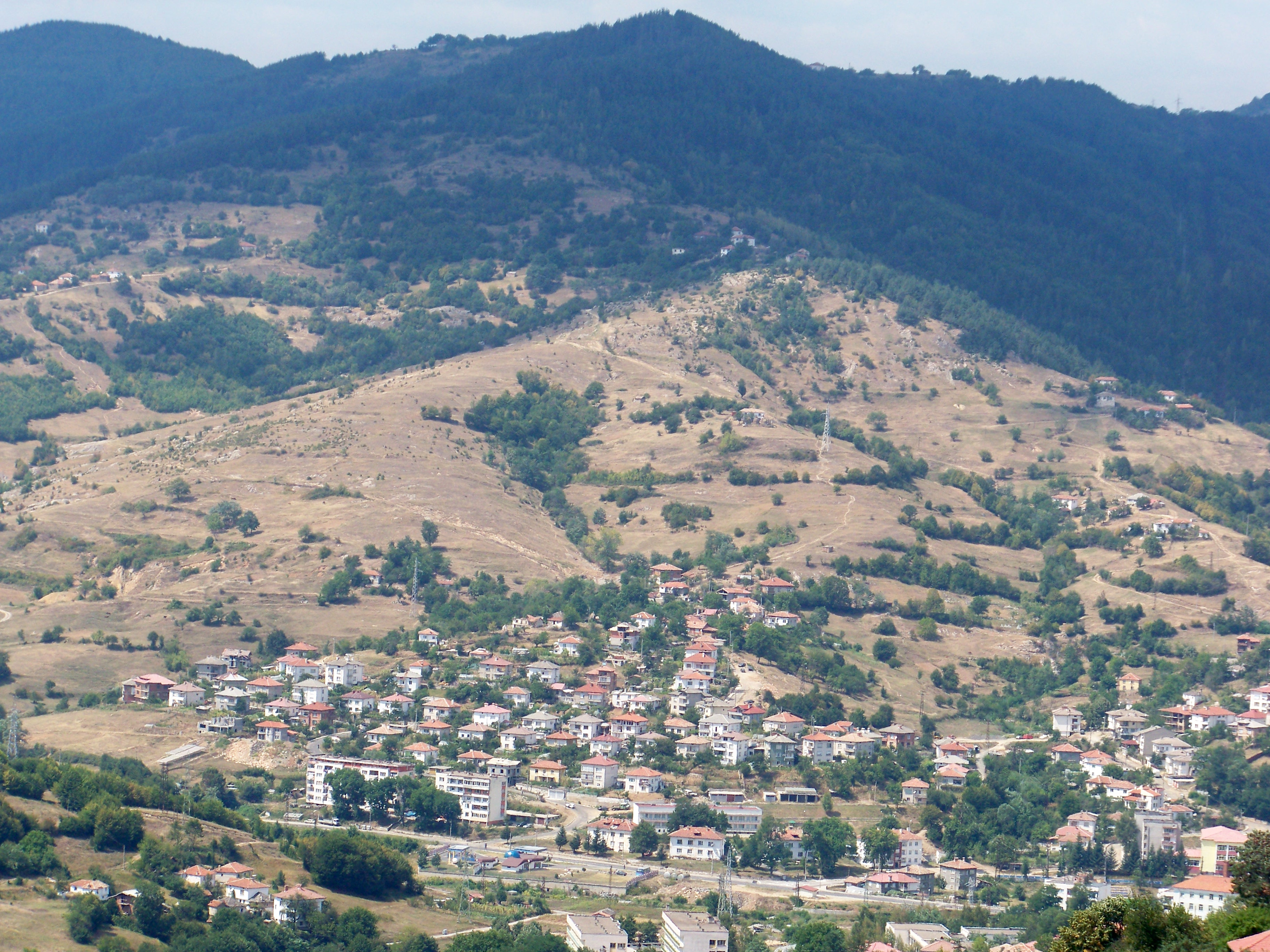 Ardino (Bulgarian: Ардино, formerly Turkish: Eğridere) is a town in Southern Bulgaria, in the Rhodope Mountains.